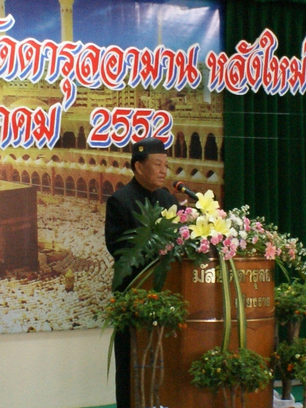 Ban Hoe Mosque located in Chiang Rai, is the biggest mosques in the province. Darun Aman Mosque, Chiang Rai, Wan Muhammad Noor Matha was giving a speech in the opnning ceremony of the new building.